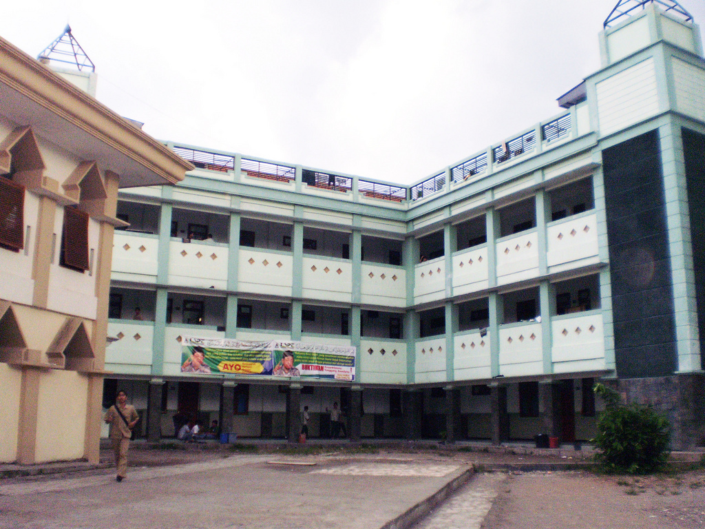 Tebuireng Islamic Boarding School, Jombang, East Java. The founder of this 'pesantren' is K.H. Hasyim Asy'ari. He is the grandfather of K.H Abdurrahman Wahid (Gus Dur), the fourth president of Indonesia.